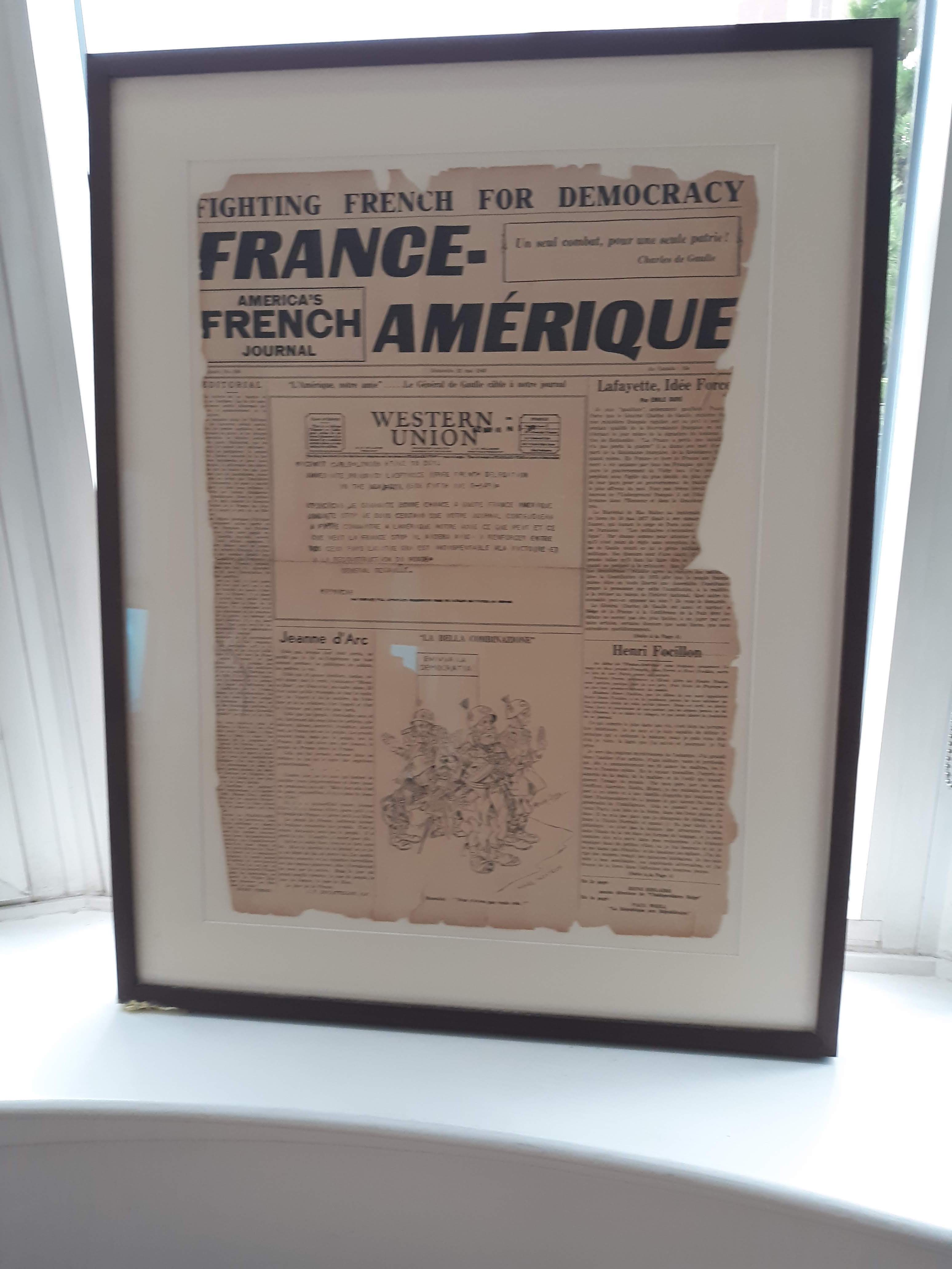 This is the first France-Amérique Newspaper which dates May 23, 1943. Charles de Gualle congratulates and wishes good luck to France-Amérique, this telegram is on the front page.